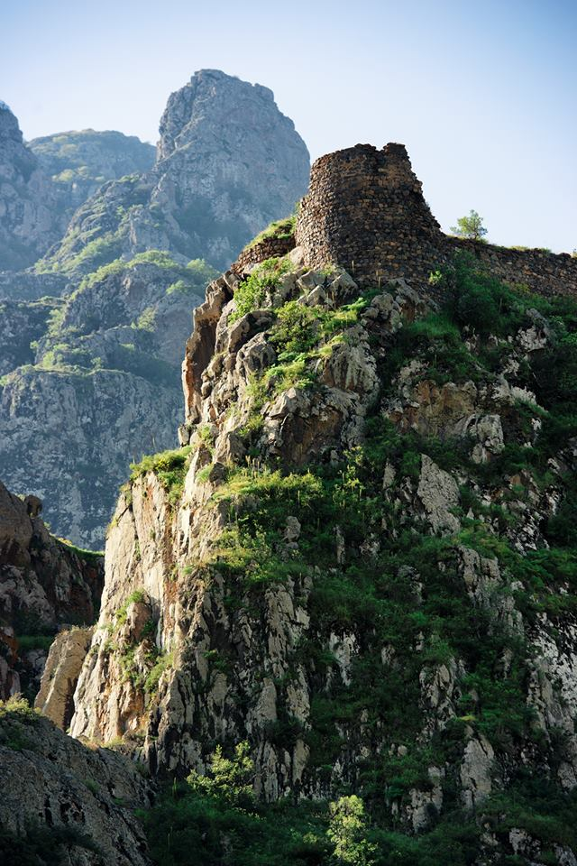 Baghaberd Fortress, Armenia